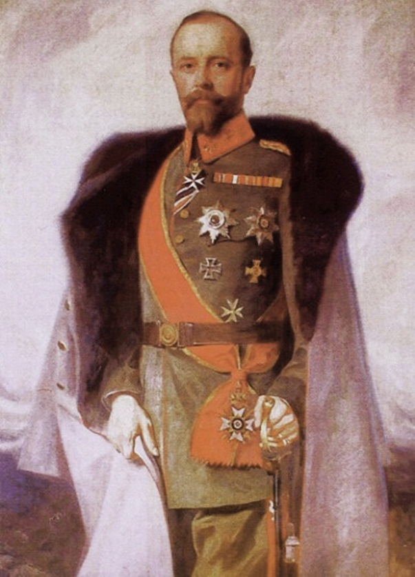 Leopold IV, Prince of Lippe (1871-1949), prince of the German principality of Lippe 1905–1918